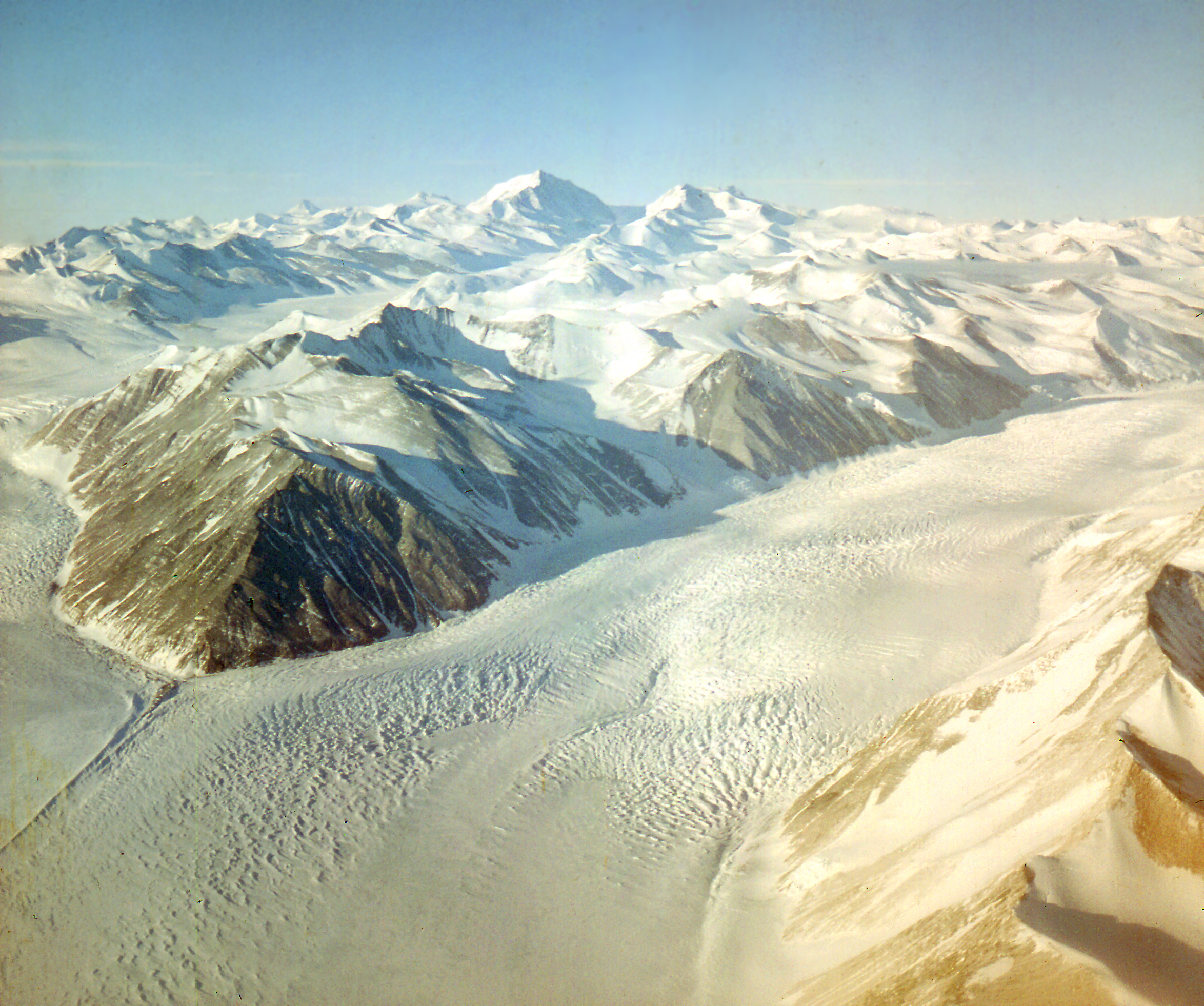 An aerial view of Dugdale and Murray Glaciers, Antarctica. Mount Sabine in the background.